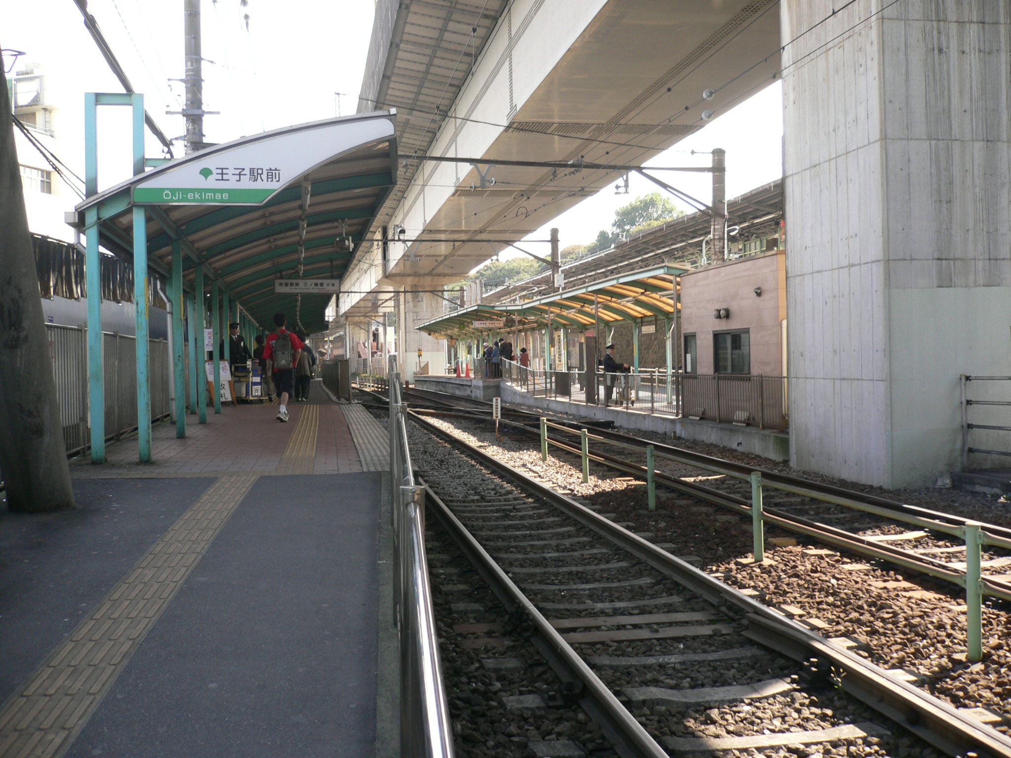 Ojiekimae Staion (王子駅前駅), Kita W, Tokyo M.